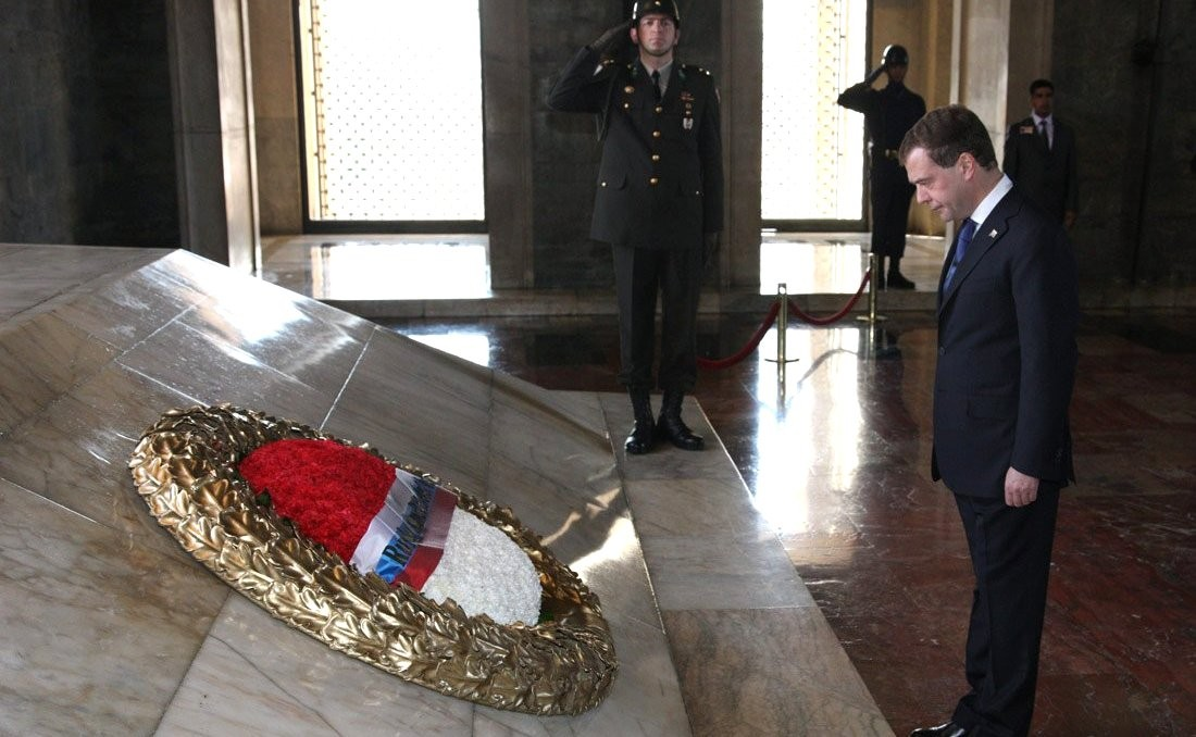 Russian president Dmitry Medvedev on state visit in Turkey. At the Mustafa Kemal Ataturk Mausoleum.